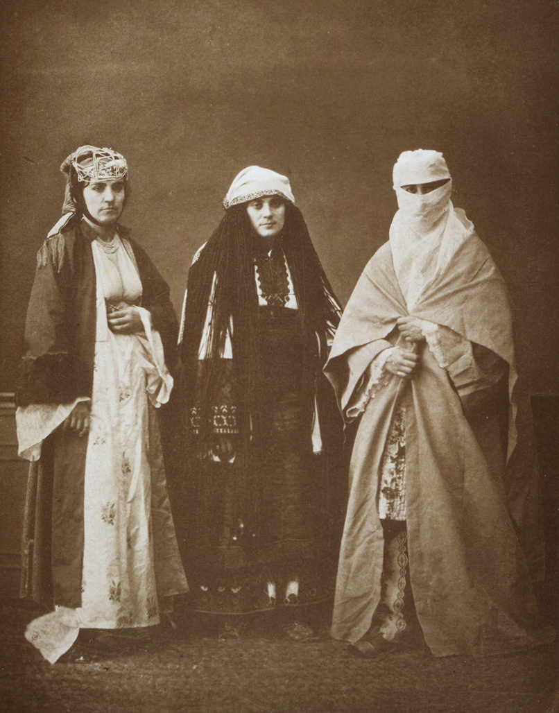 Traditional costumes of (from right to left) a married Muslim woman of Selanik (Salonika); a married Jewish woman of Selanik (Salonika); and a Bulgarian woman of Perlèpè (Prilep). From the album Les costumes populaires de la Turquie en 1873 (Popular costumes of Turkey in 1873). This album depicting ethnic costumes from throughout the Ottoman Empire was commissioned by the Ottoman government for the 1873 International Fair in Vienna and was authored by Hamdi Bey and Victor Marie de Launay, an Ottoman official, amateur historian, and artist of French origin.